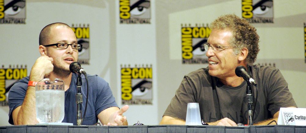 Carlton Cuse and Damon Lindelof at the Comic-con 2007 LOST Panel.